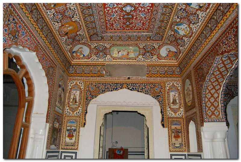 Inside City Palace, Mandawa, India